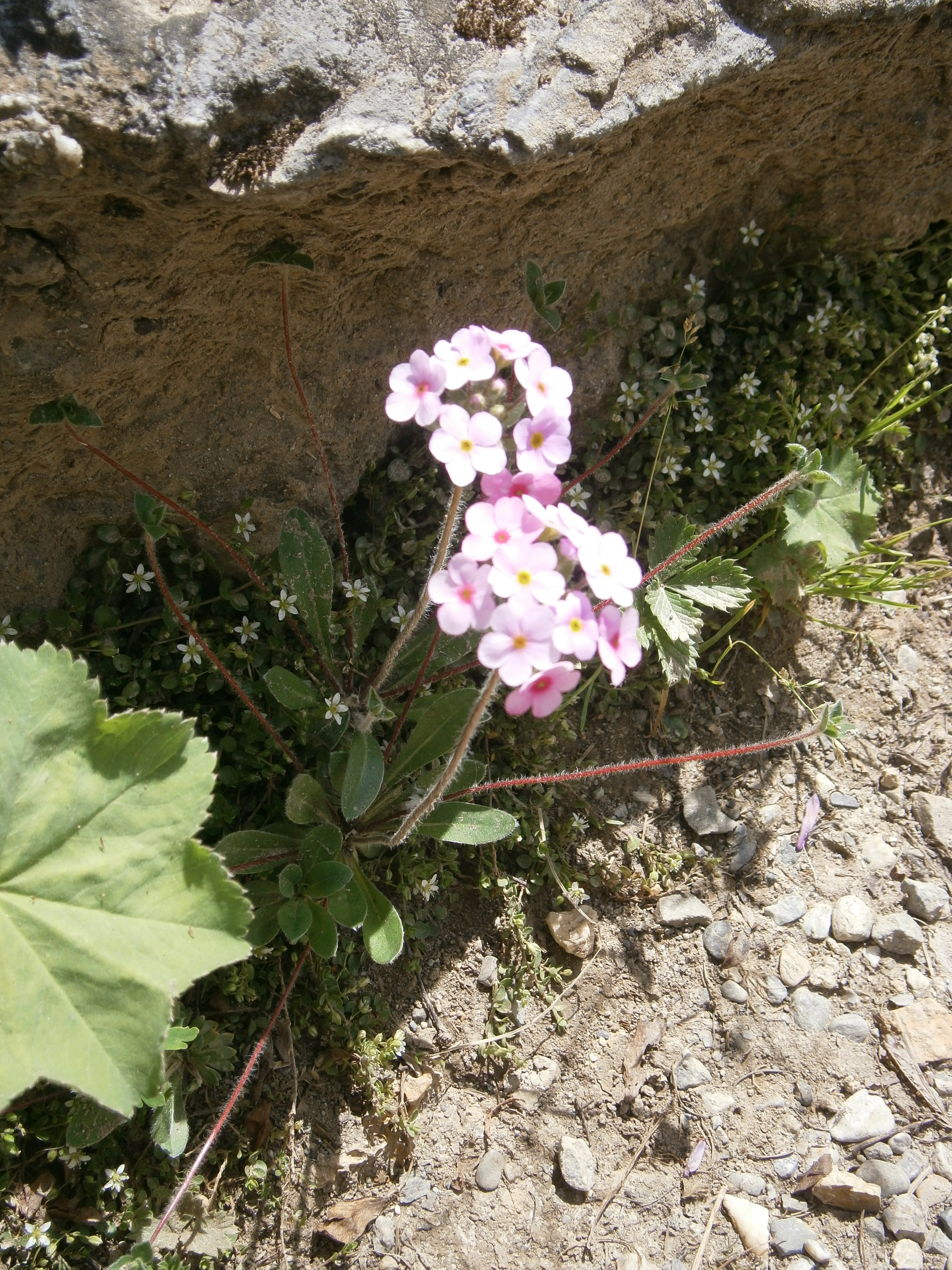 Androsace dasyphylla in the Jardin Botanique Alpin du Lautaret